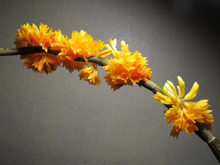 Dendrobium bullenianum